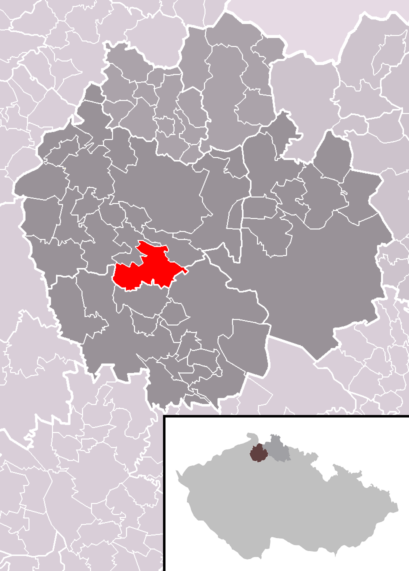 Location of Jestřebí municipality within Česká Lípa District and administrative area of Česká Lípa as a Municipality with Extended Competence.